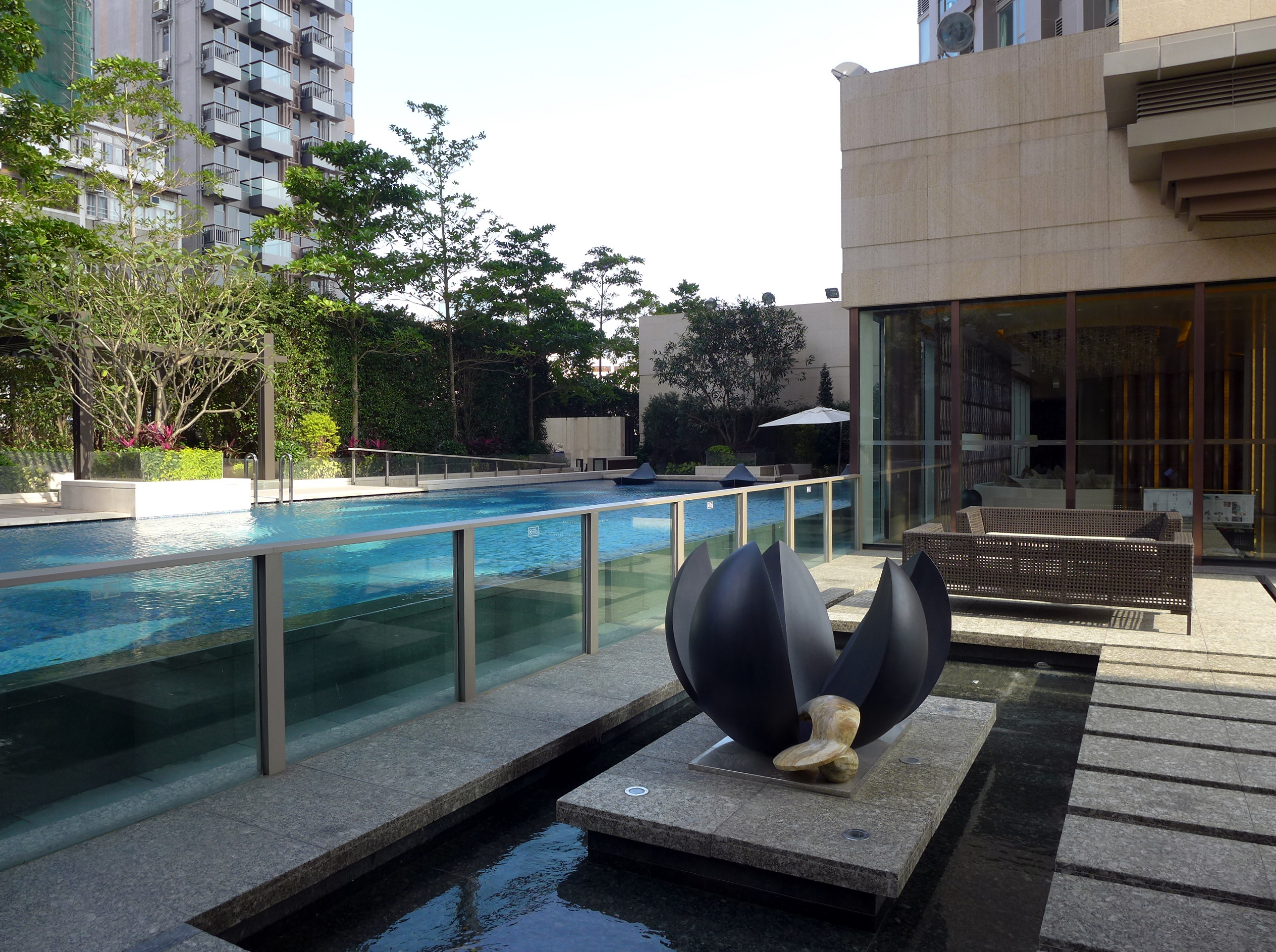 Chatham Gate